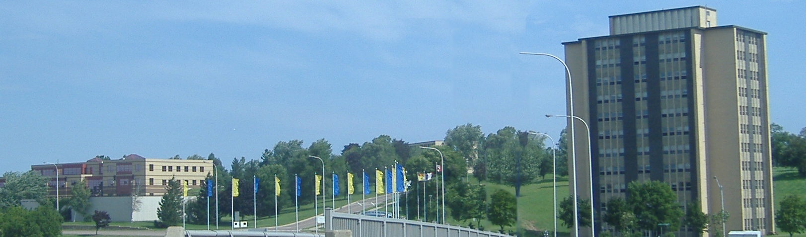 An edited version of Image:DSCF1478.JPG. I removed the light pole and cropped the image using Photoshop CS2.